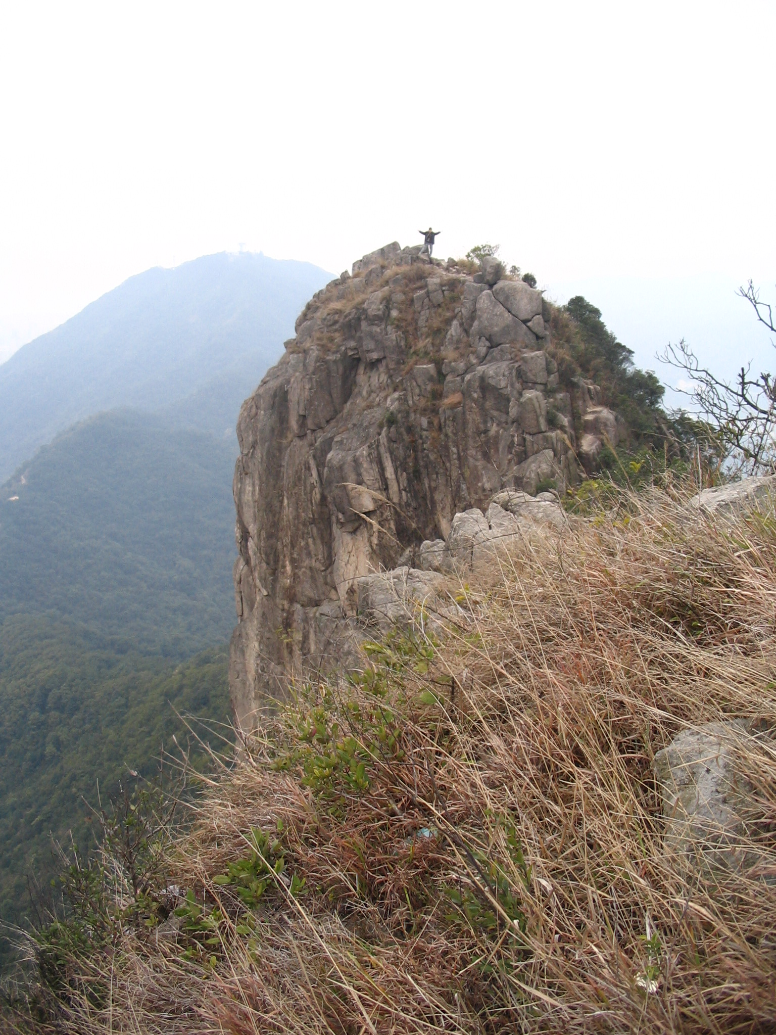 Photo of Lion Rock